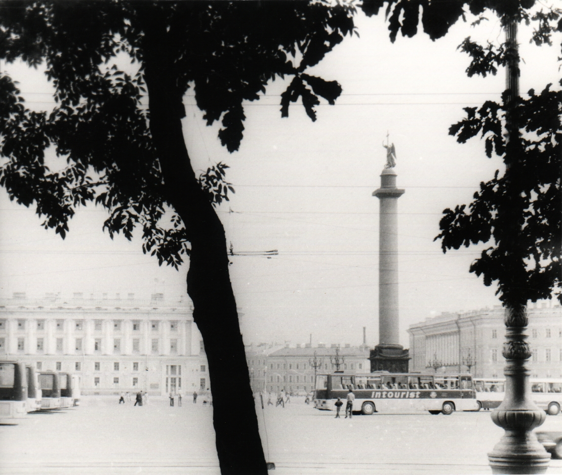 Column of Alexander I in 1980